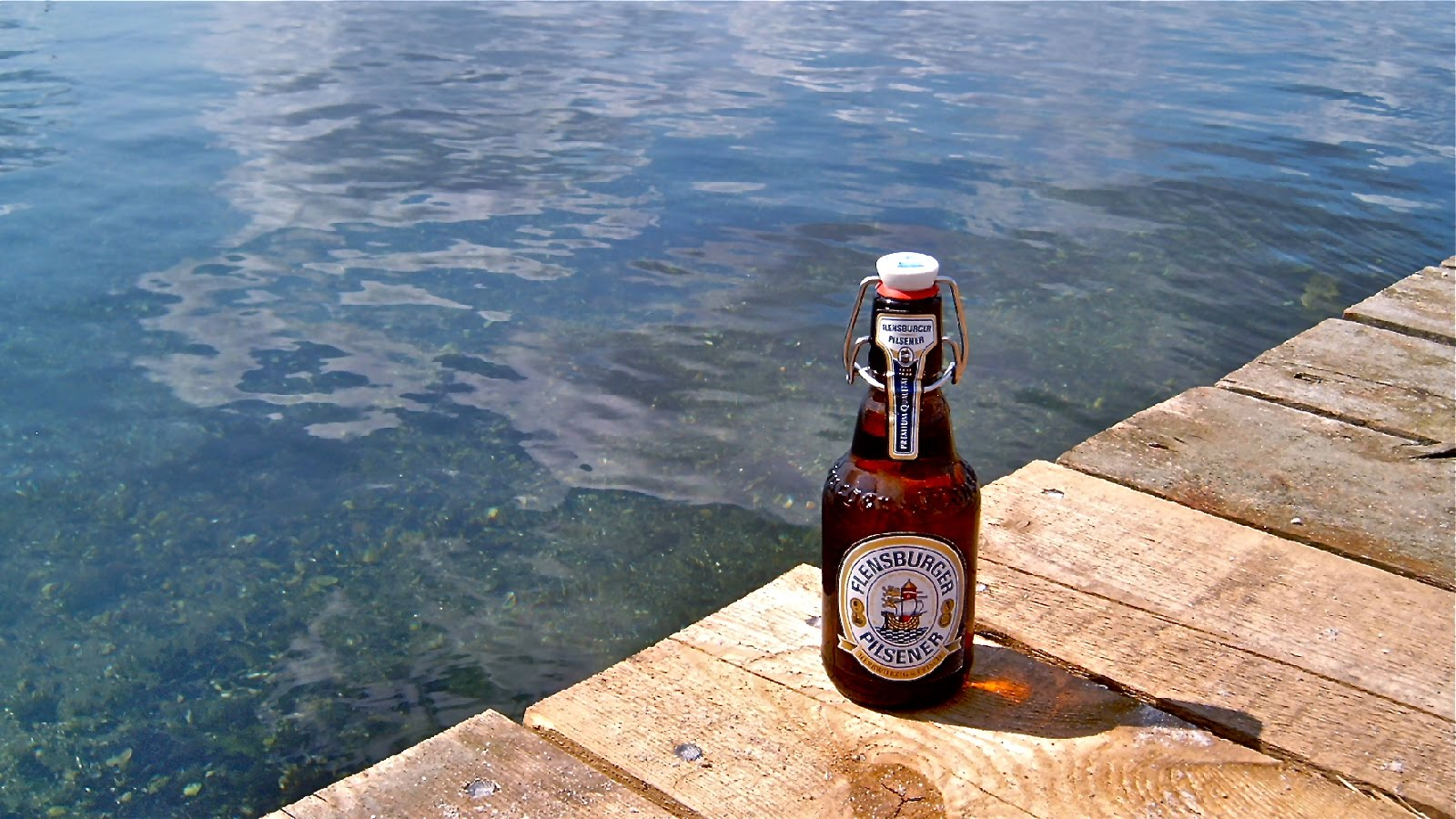 JENOPTIK DIGITAL CAMERA